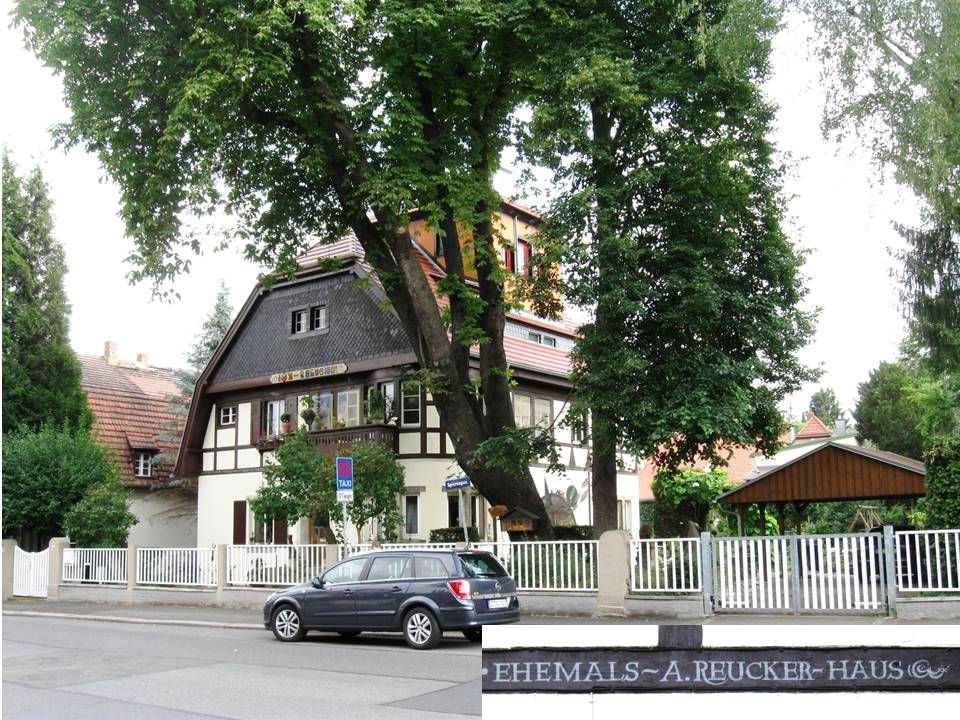 formerly Alfred-Reucker-Haus - Spitzwegstraße 60, Dresden Leubnitz-Neuostra, 2015; the inscription is at the joist over the ground floor.